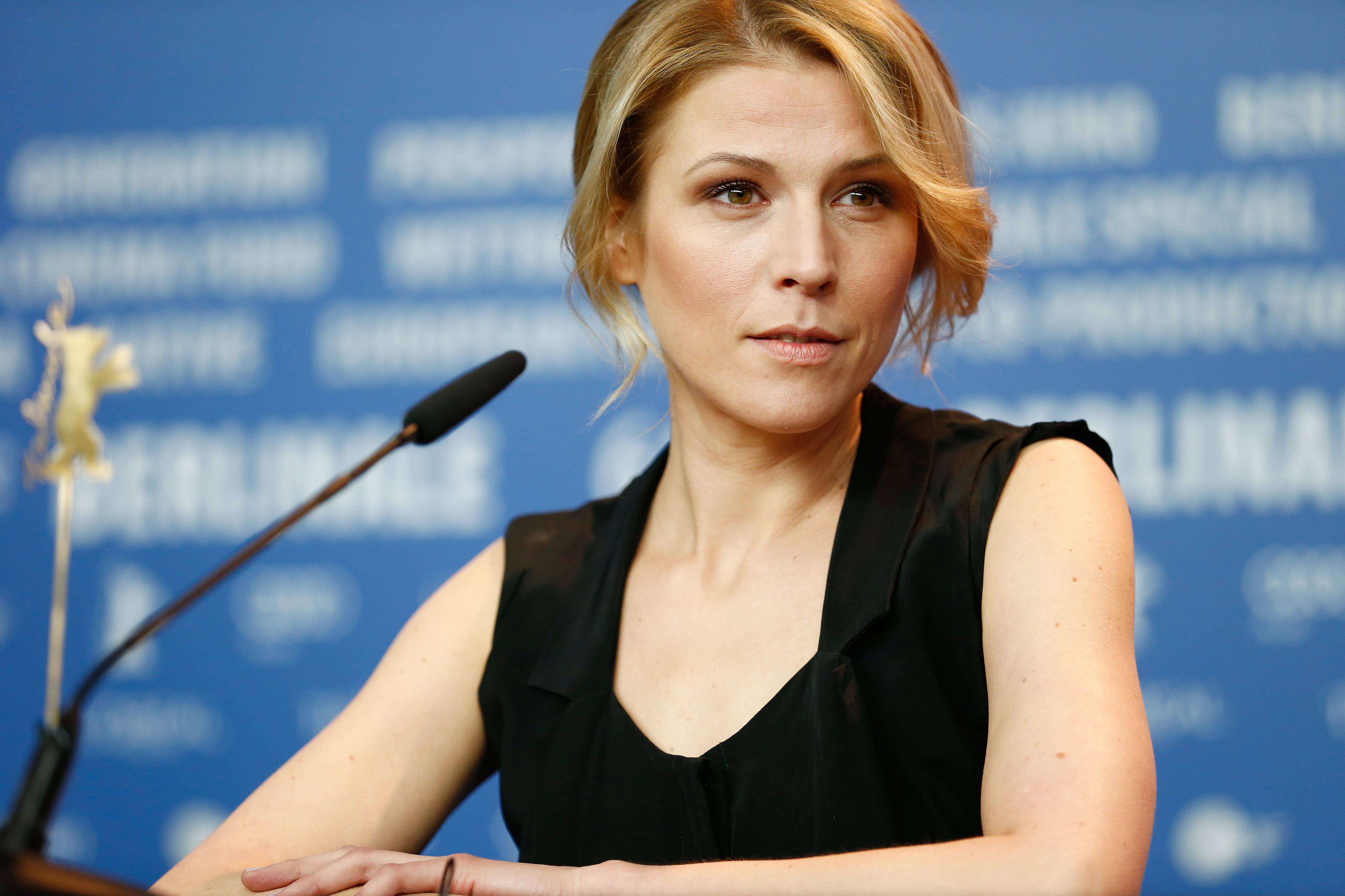 attends the 'Stations of the Cross' (Kreuzweg) press conference during 64th Berlinale International Film Festival at Grand Hyatt Hotel on February 9, 2014 in Berlin, Germany.